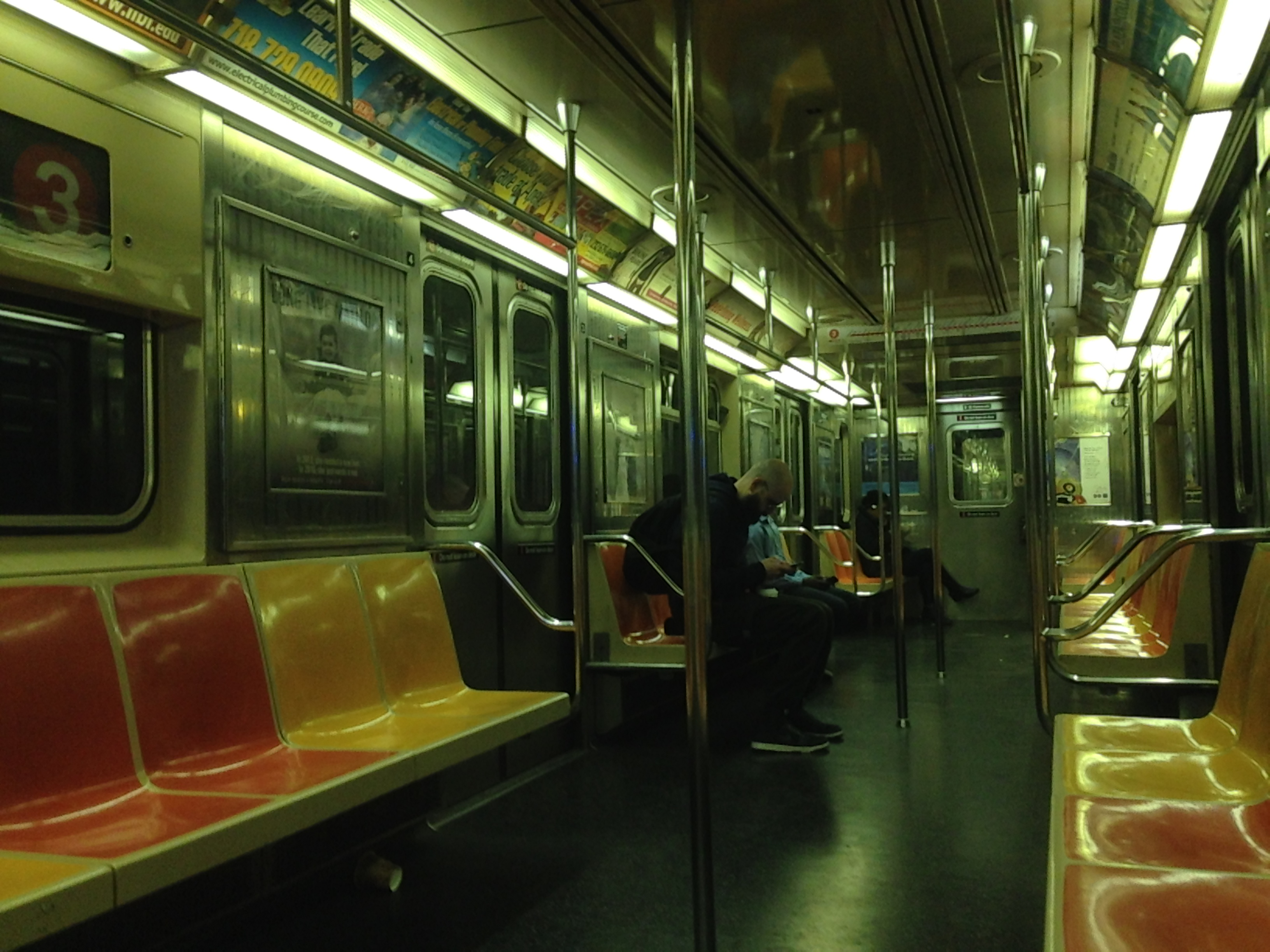 Better image than the one of car 1608 (more of the car)